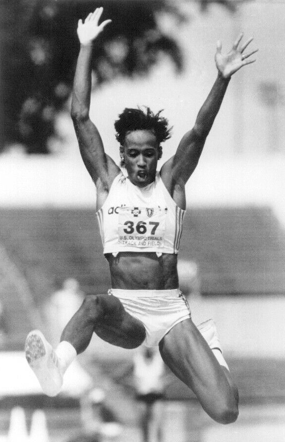 1988 US Olympic Trials Jackie Joyner Kersee Set Long Jump Record Press Photo